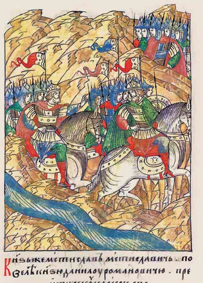 Daniil Romanovich and Mstislav Mstislavich with their troops